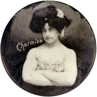 Version of Charmion vaudeville promotional button